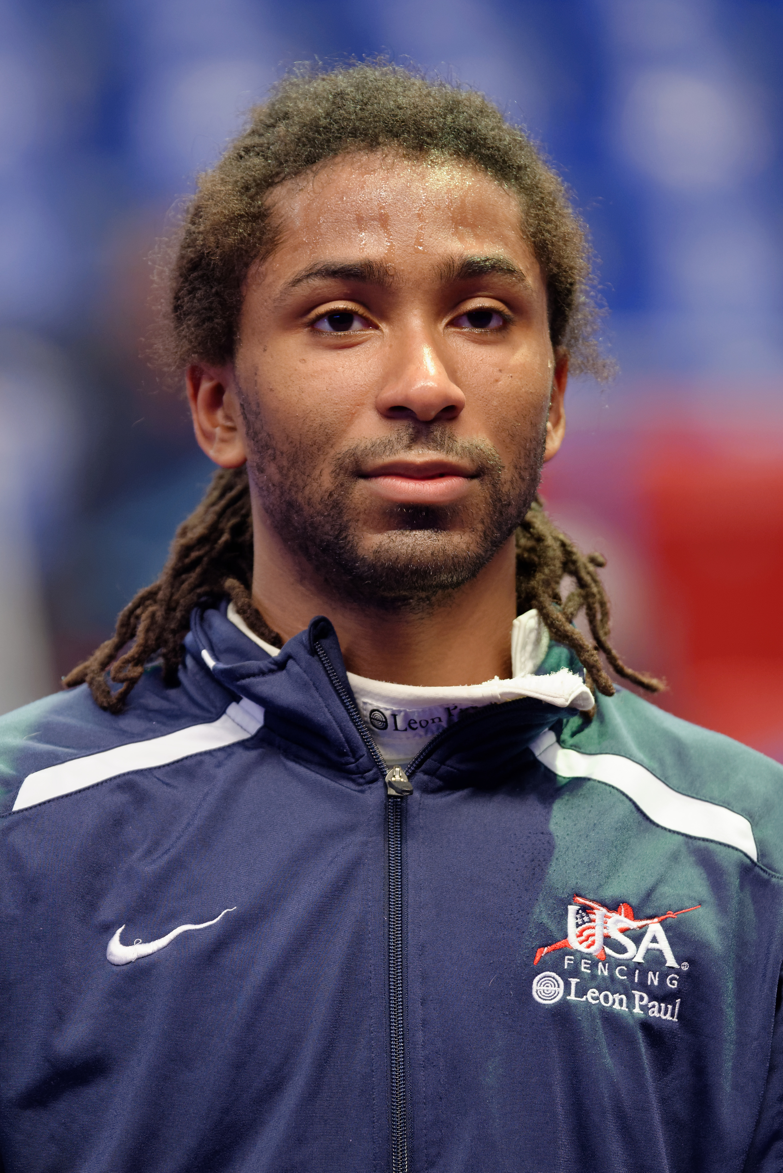 USA's Jason Pryor at the Challenge SNCF Réseau 2016, a men's épée World Cup event, in the Stadium Pierre de Coubertin, Paris.